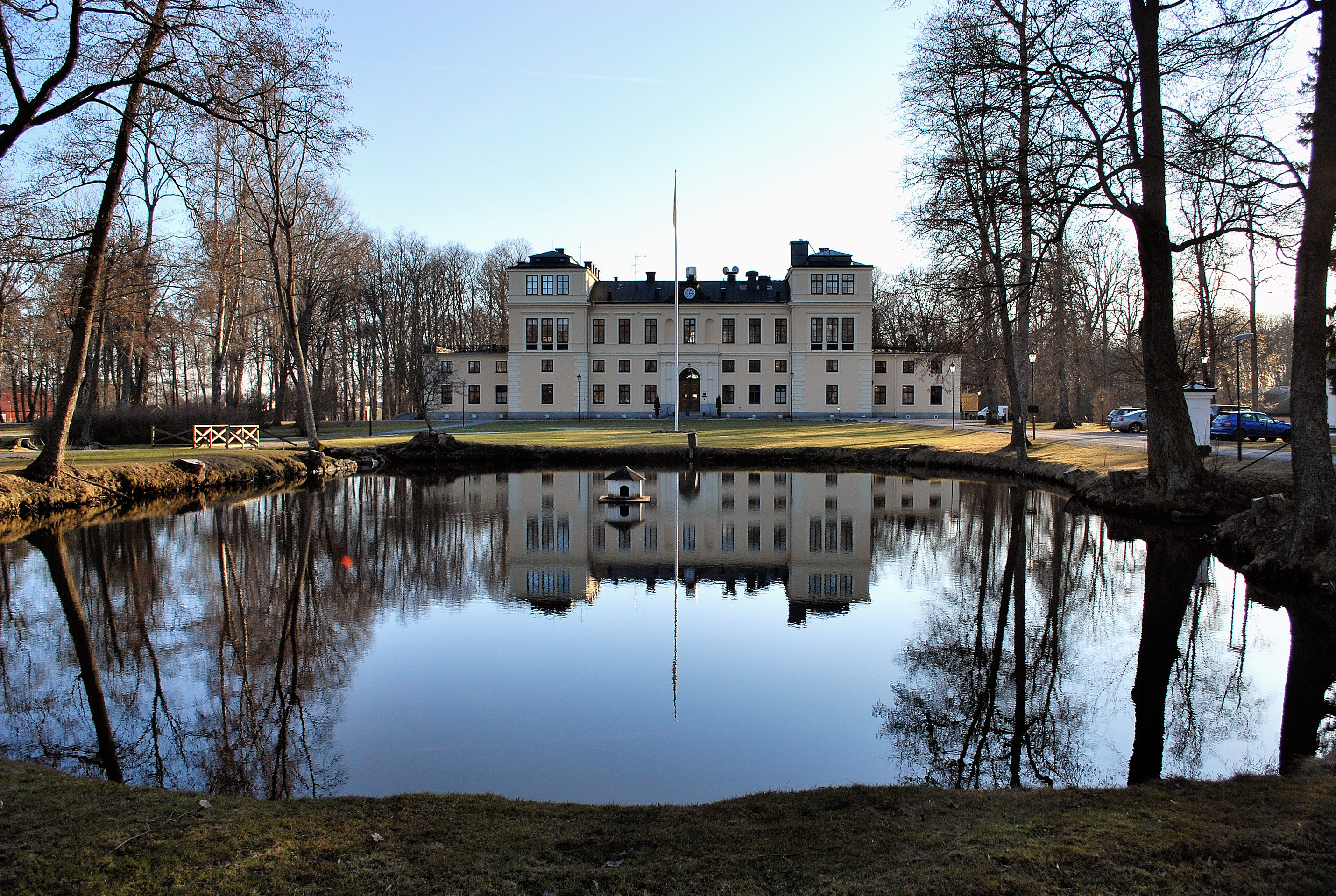 Rånäs slott, a mansion in Stockholm county, Sweden